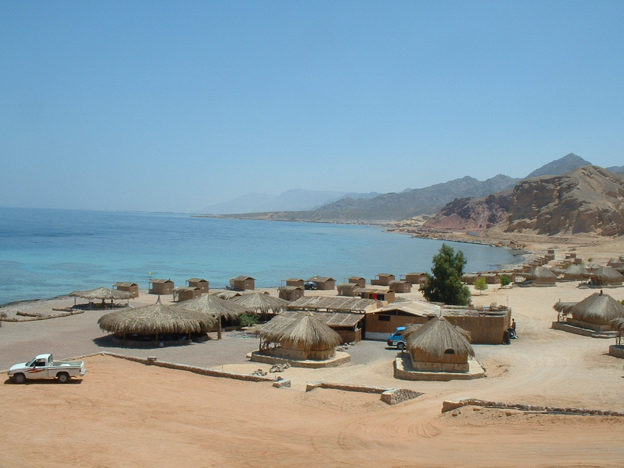 Moon Island beach resort in June 2004, four months before the deadly terrorist attack. Most of the restaurant compound was destroyed in the blast, in which 2 Israeli tourists died and 8 were injured.